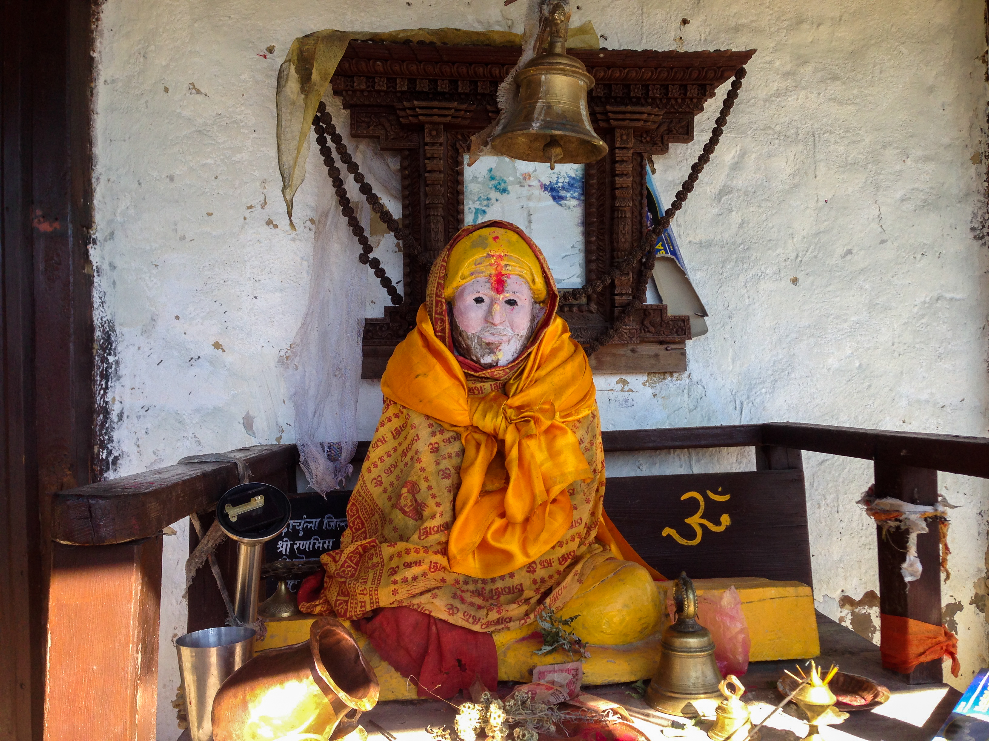 An ascetic who spent more than three fourth of a century travelling to various places in the high mountains, stayed for 50 years in the Khaptad valley, located at an altitude of around I 0,500 ft, bordering Doti, Bajhang, Achham and Bajura district of Nepal.